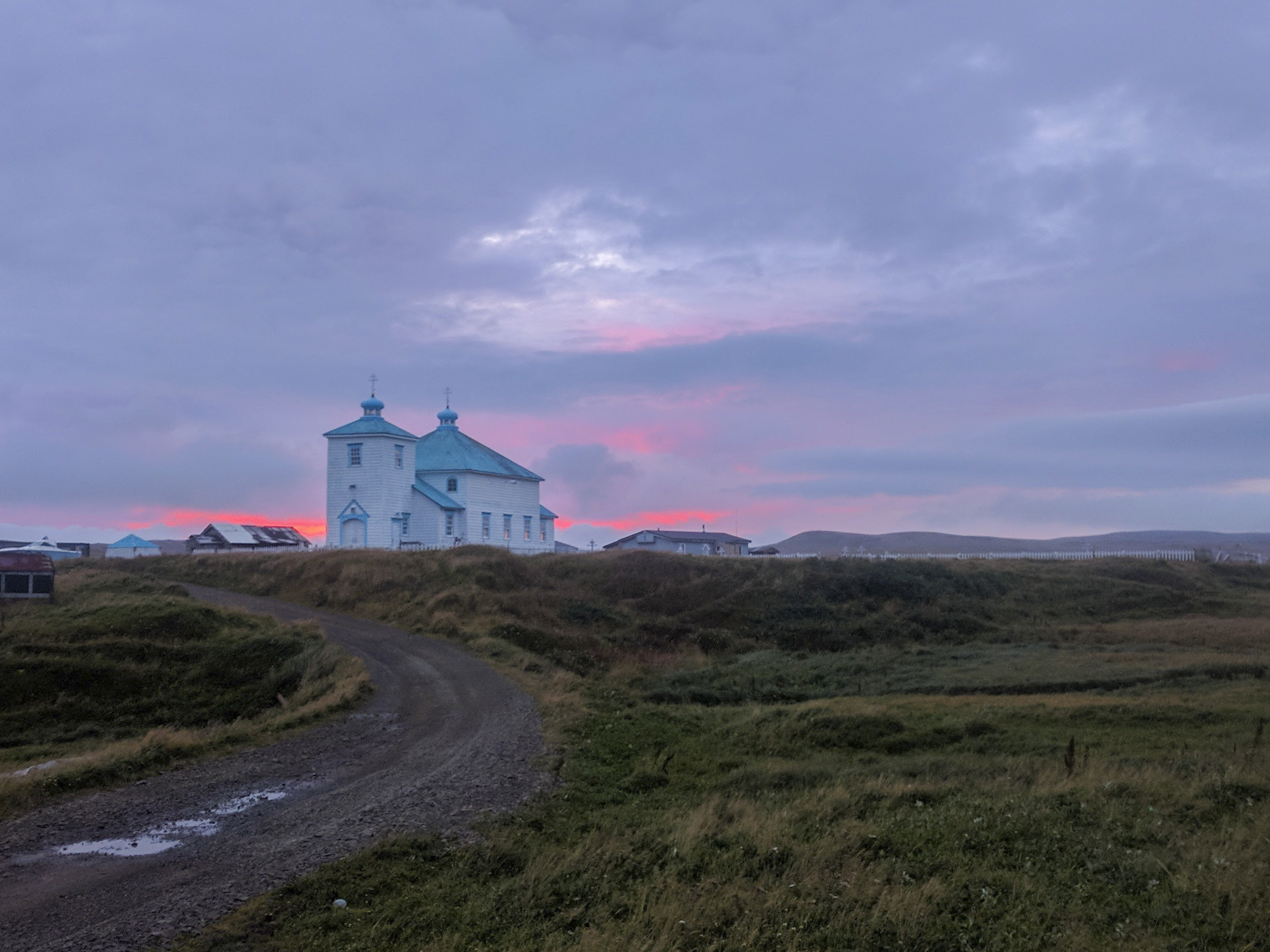 Nikolski village, Umnak AK